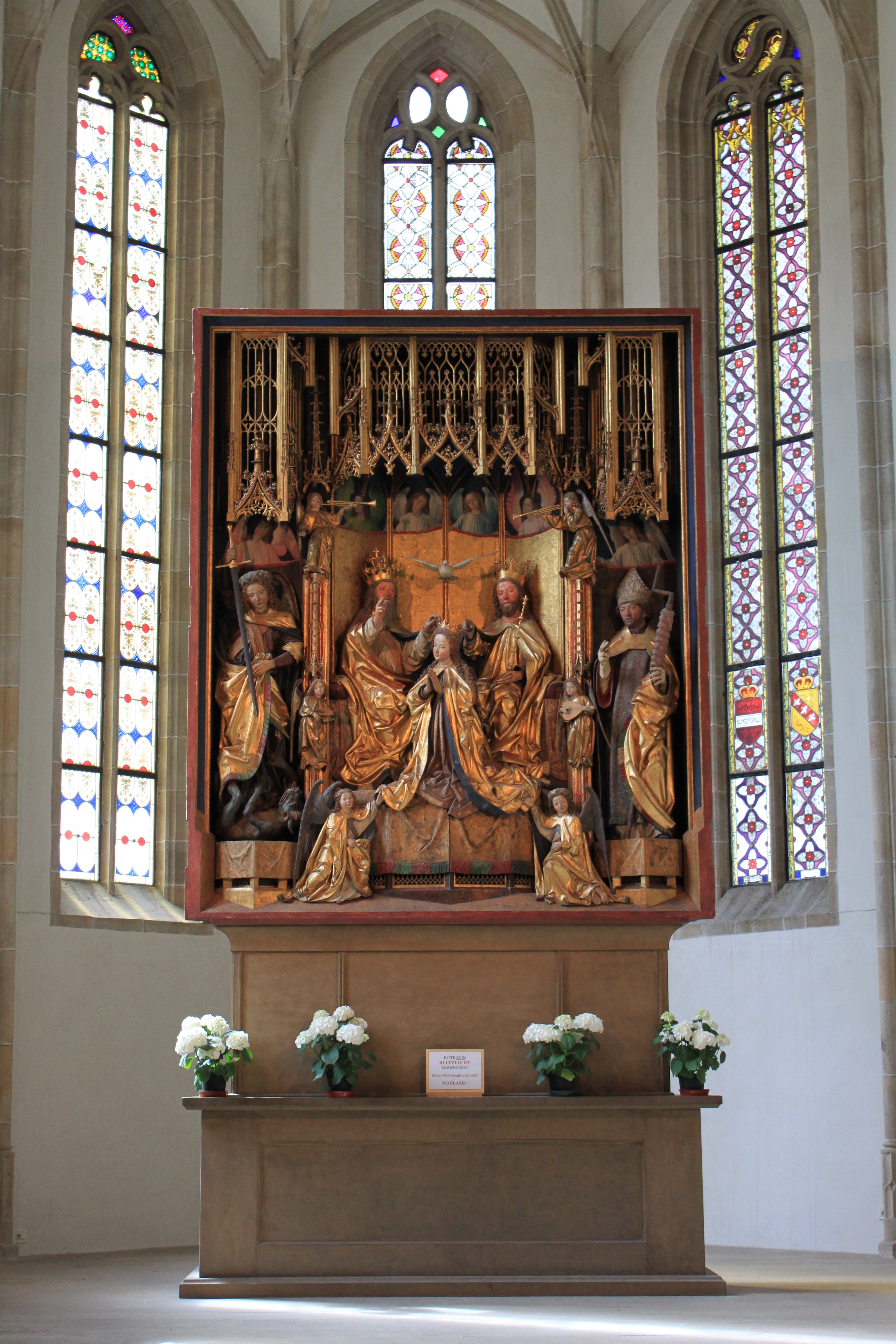 Altar of Michael Pacher in the Old Parish Church of Gries in Bozen Bolzano South Tyrol